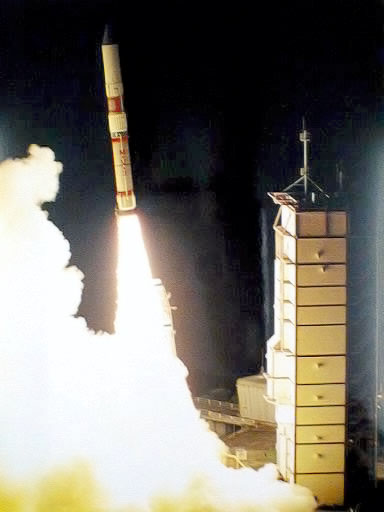 The Nozomi (Japanese for Hope and known before launch as Planet-B) was launched on 3 July 1998. The arrival of Nozomi at Mars was delayed four years from its originally scheduled rendezvous in 1999 in order to conserve fuel. The spacecraft used more propellant than planned in a course correction maneuver on 21 December 1998 after the 20 December Earth flyby left the craft with "insufficient acceleration". The spacecraft will continue in a heliocentric orbit until it encounters Mars in December of 2003.